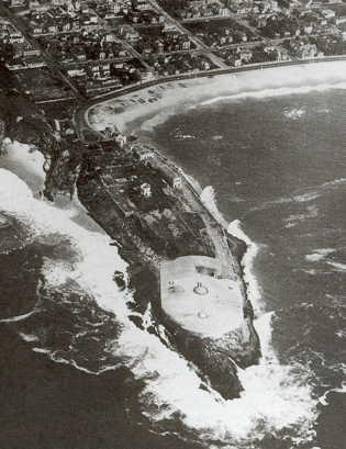 (Google translation) "Aerial view of the Fort of Copacabana around 1920. Destaque para as duas cúpulas dos canhões de 305 mm e 190 mm. Emphasis on the two summits of the cannon of 305 mm and 190 mm. A esquerda (sul) ea direita (norte) da cúpula de 305 mm é possível ver as duas cúpulas menores dos canhões de 75 mm. The left (south) and right (north) of the dome of 305 mm is possible to see the two summits of the smaller guns of 75 mm."